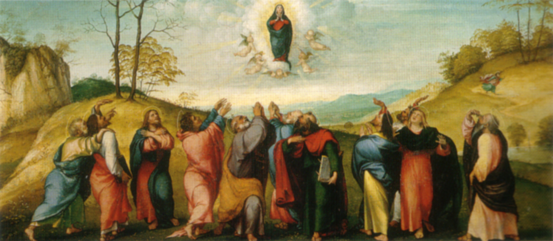 Assumption of the Virgin